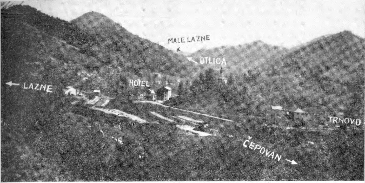 Lokve